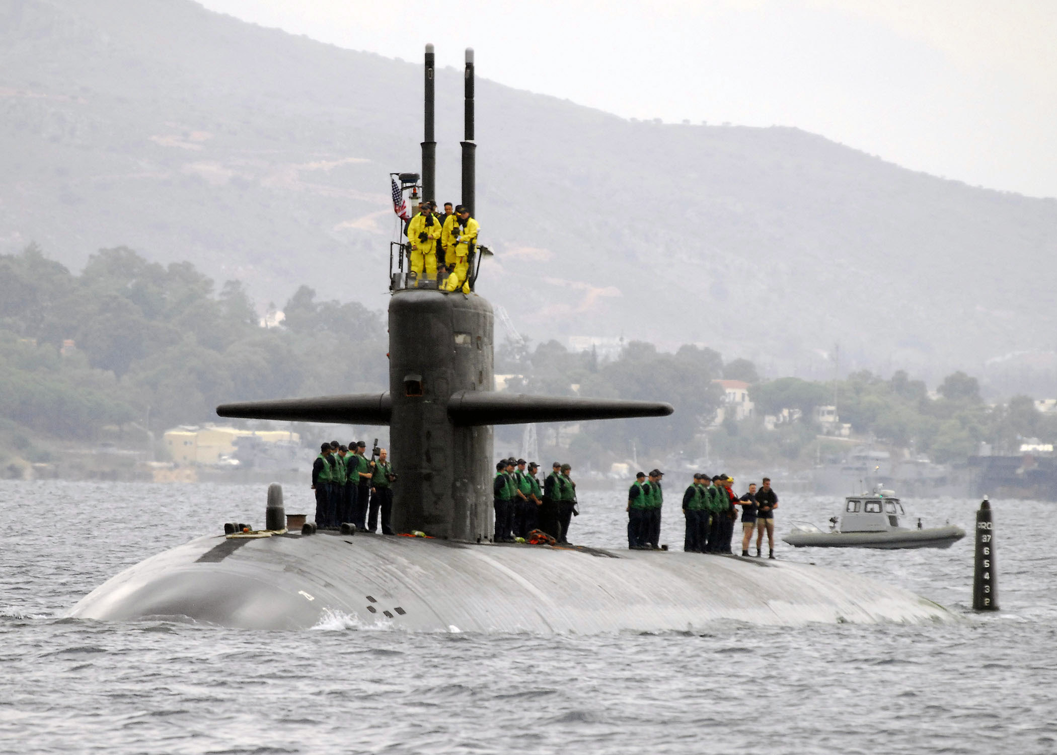 Los Angeles-class submarine USS Oklahoma City (SSN 723) arrives in Souda Harbor for a port visit.